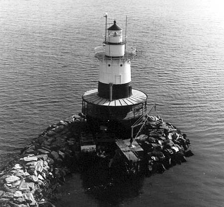 Green's Ledge Light in an undated U.S. Coast Guard Photo